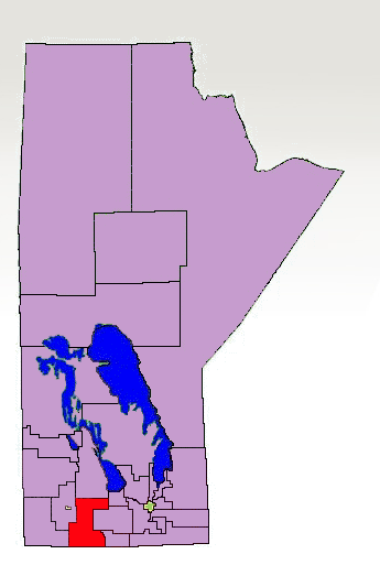 The 1998-2011 borders for the Manitoba Turtle Mountain electoral district highlighted in red